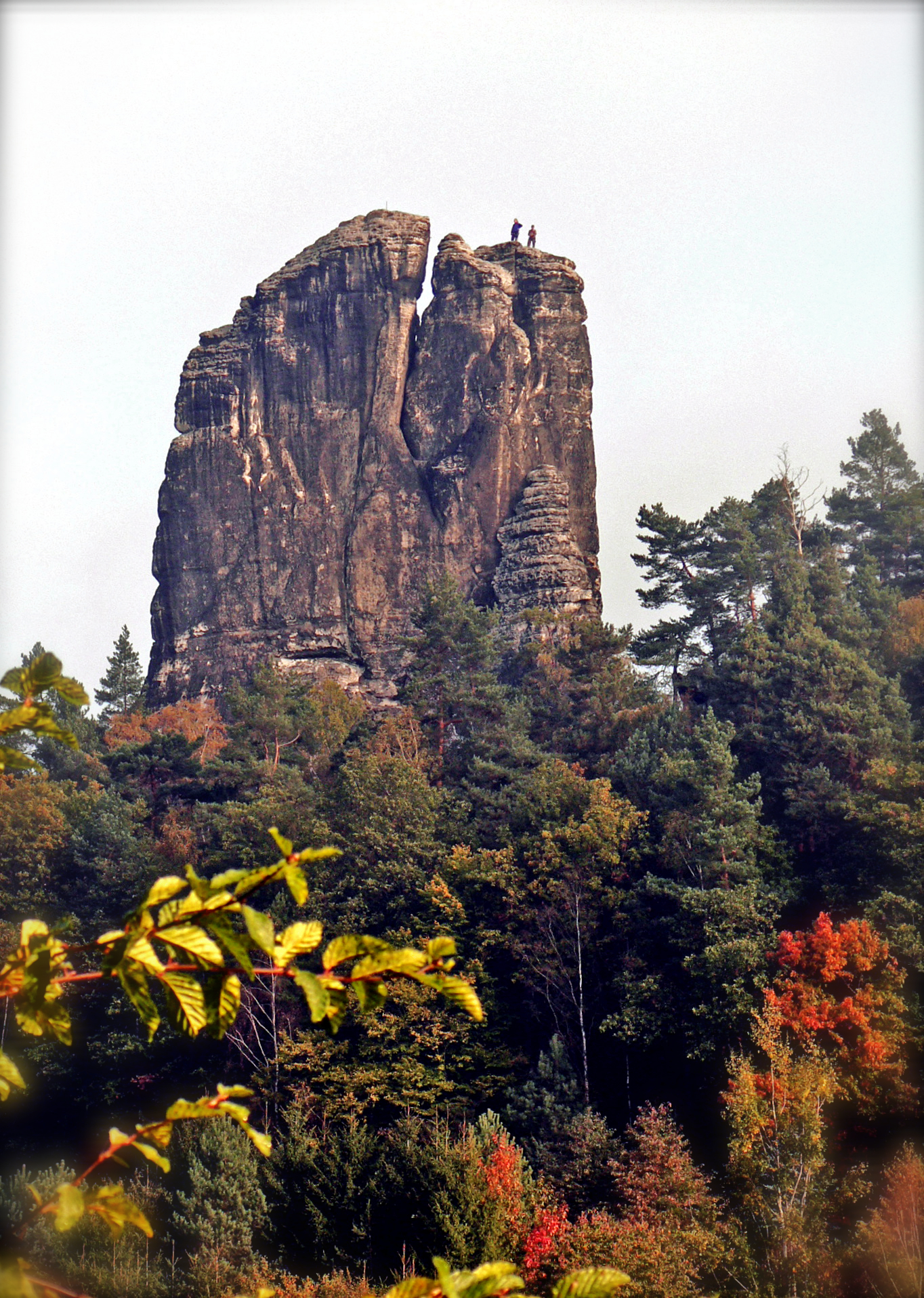 Freeclimbing in Saxony near Dresden